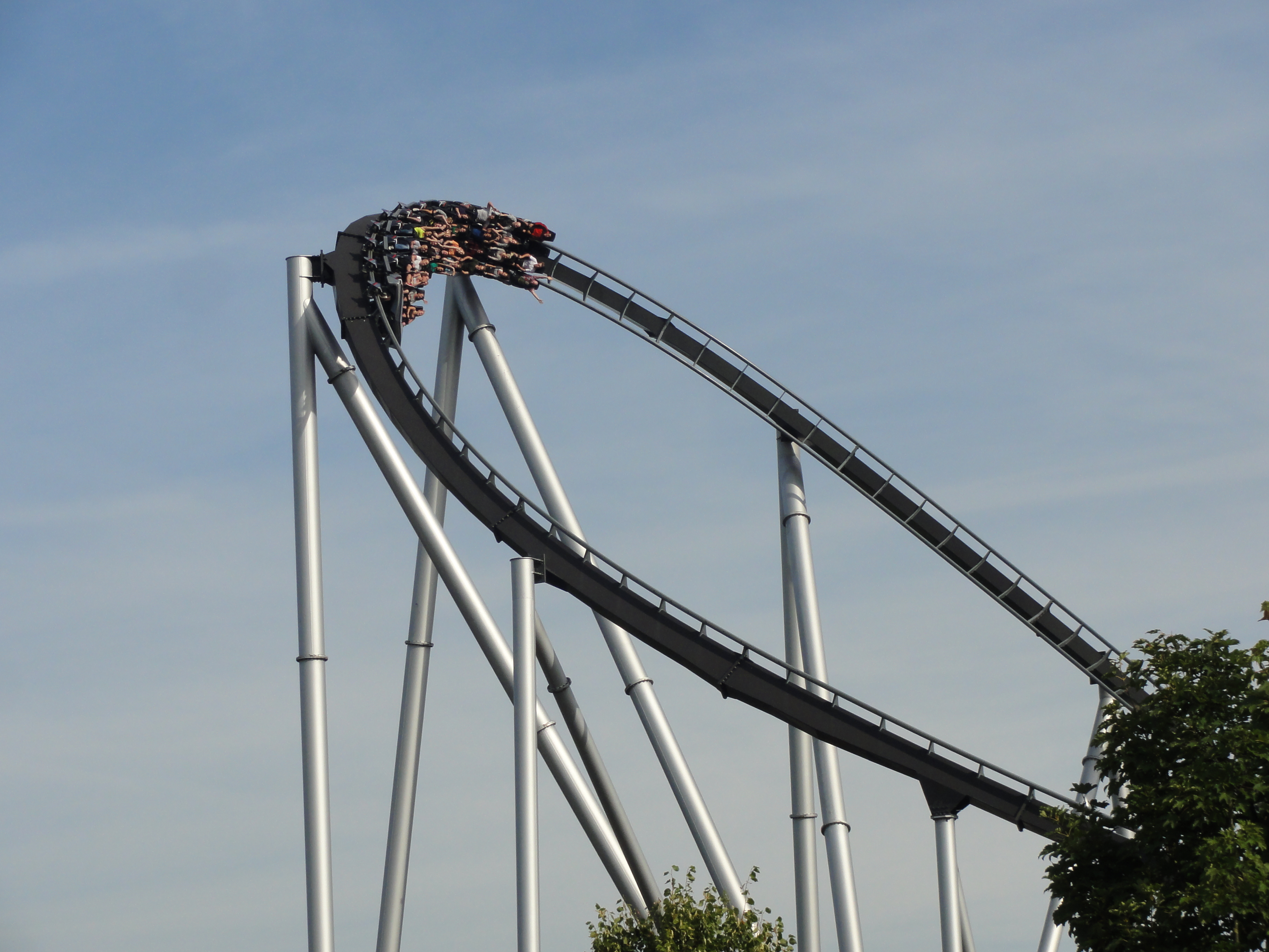 Silver Star, Europa-Park, Rust, Baden-Württemberg, Germany.